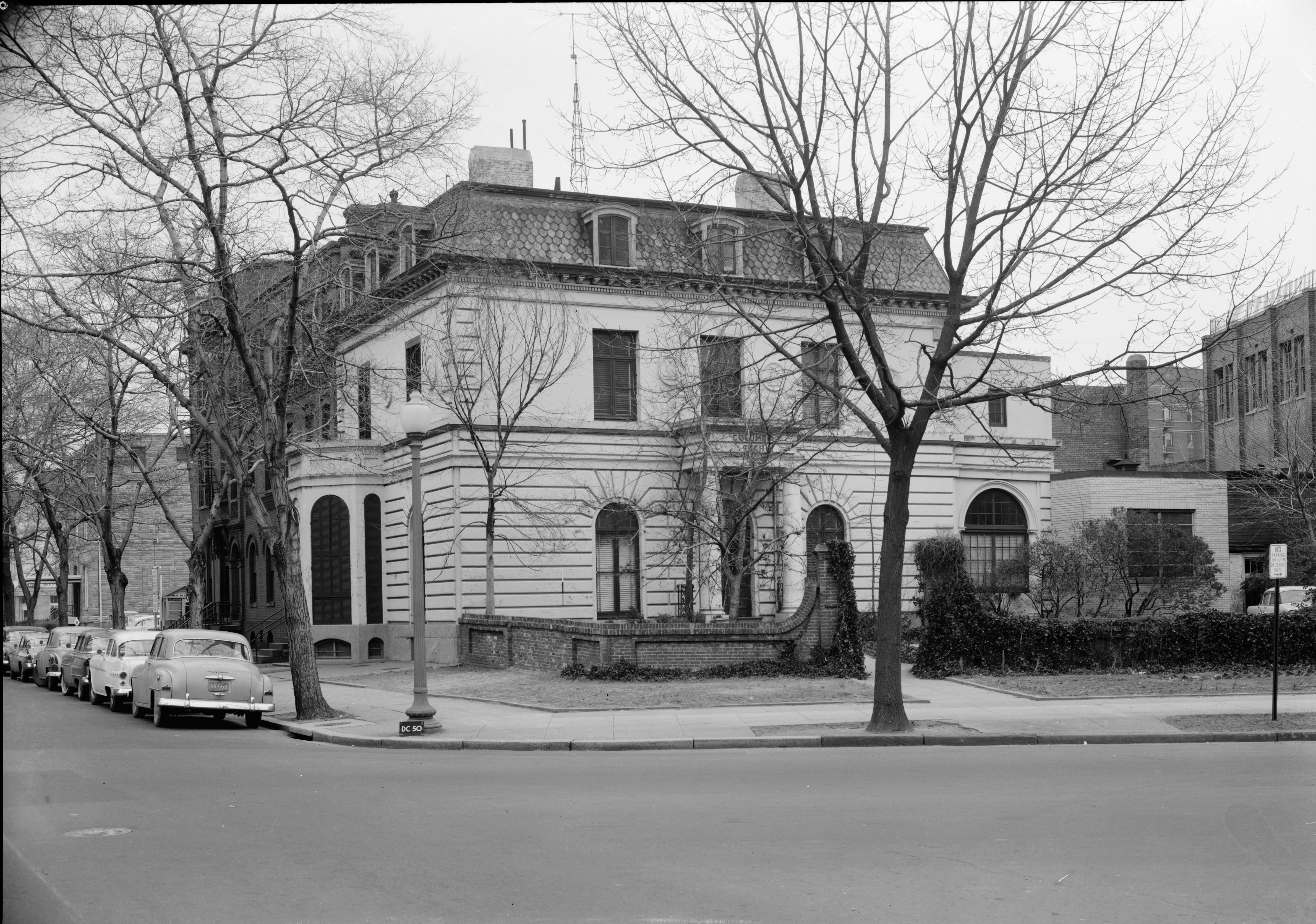 West (Front) Elevation From The N.W. - General Montgomery Meigs House, 1239 Vermont Avenue Northwest, Washington, District Of Columbia, United States.